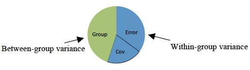 Pie chart showing partitioning of variance in an ANCOVA